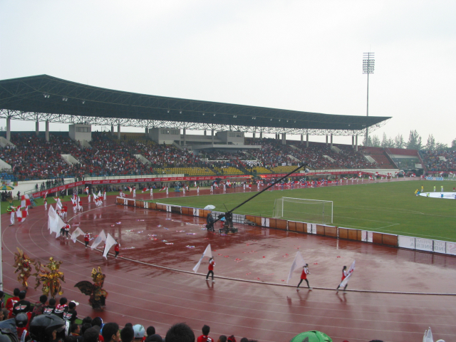 Stadion Manahan Solo. See also LPI